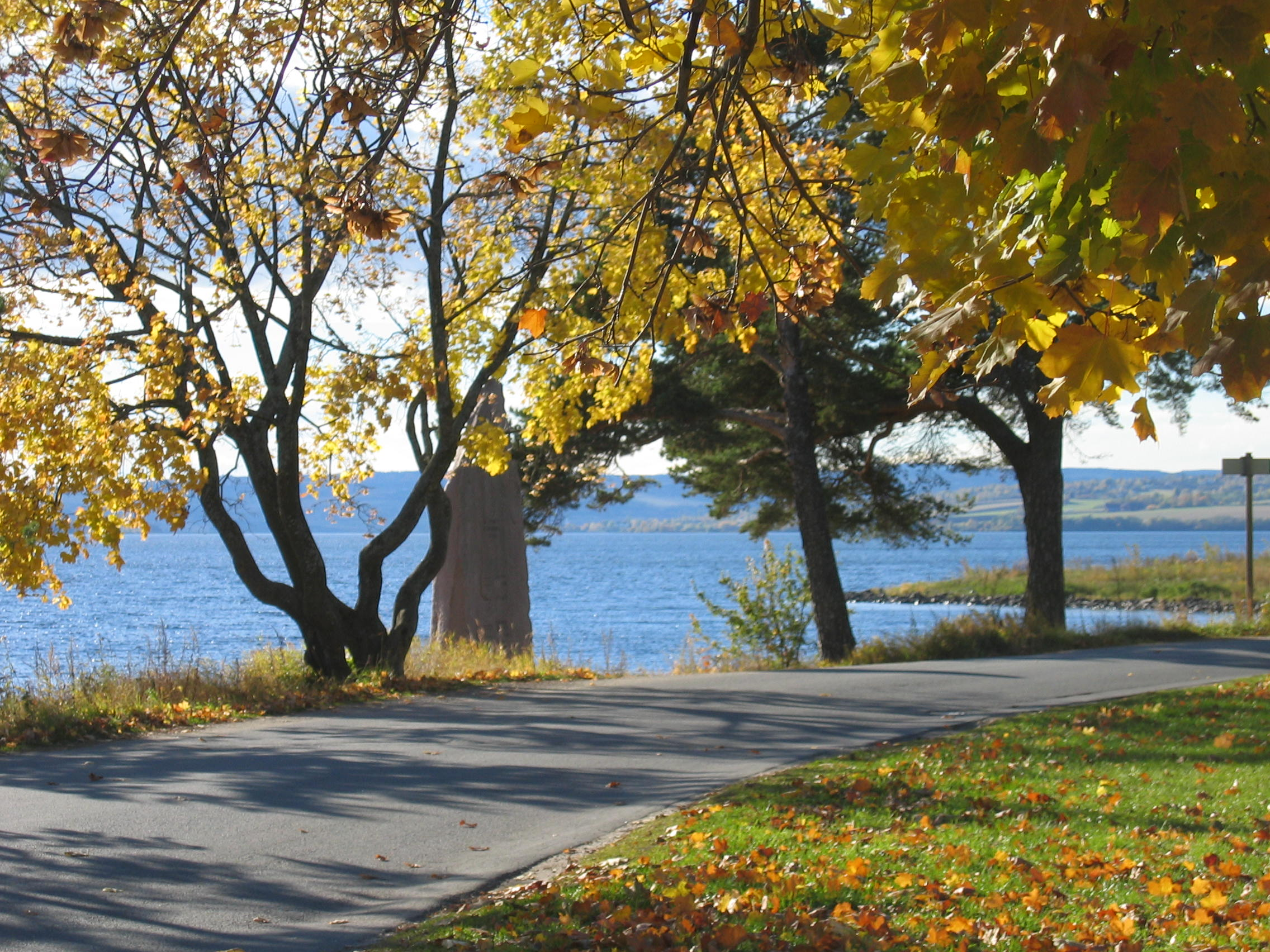 Hamar in Norway, view over lake Mjøsa